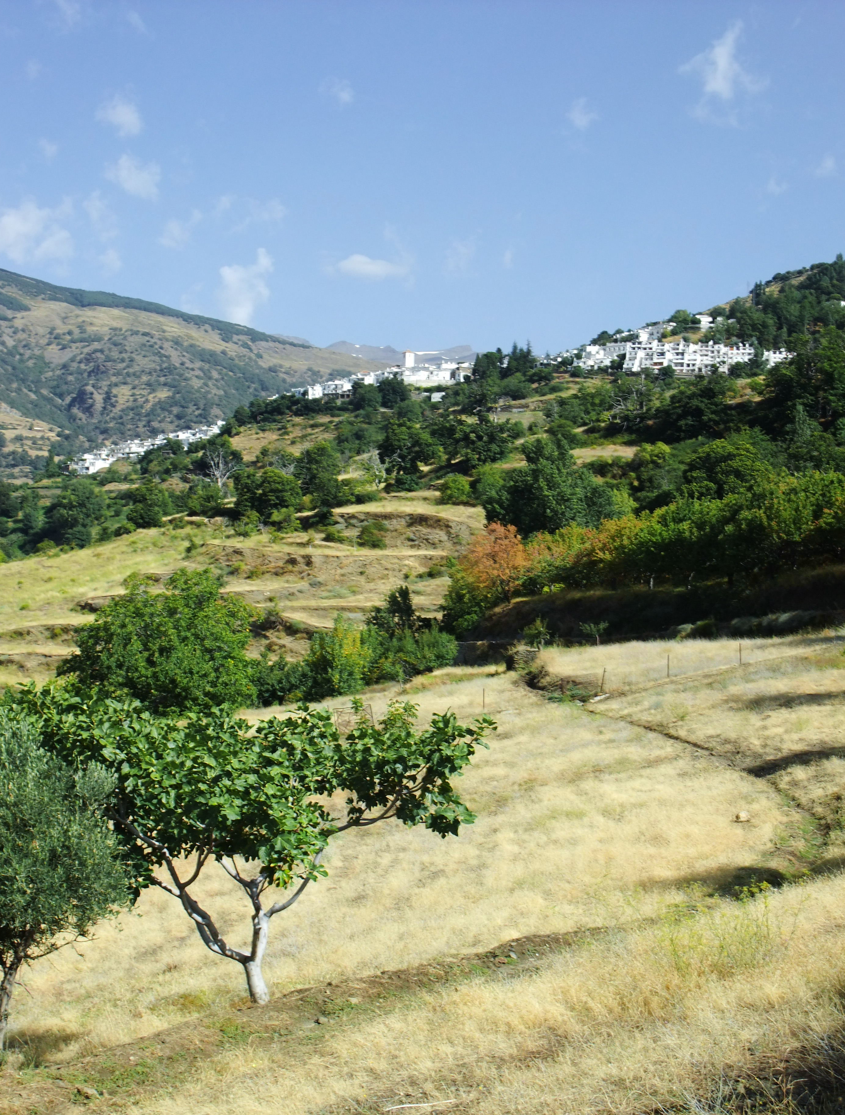 View at Bubión, Andalusia in Spain